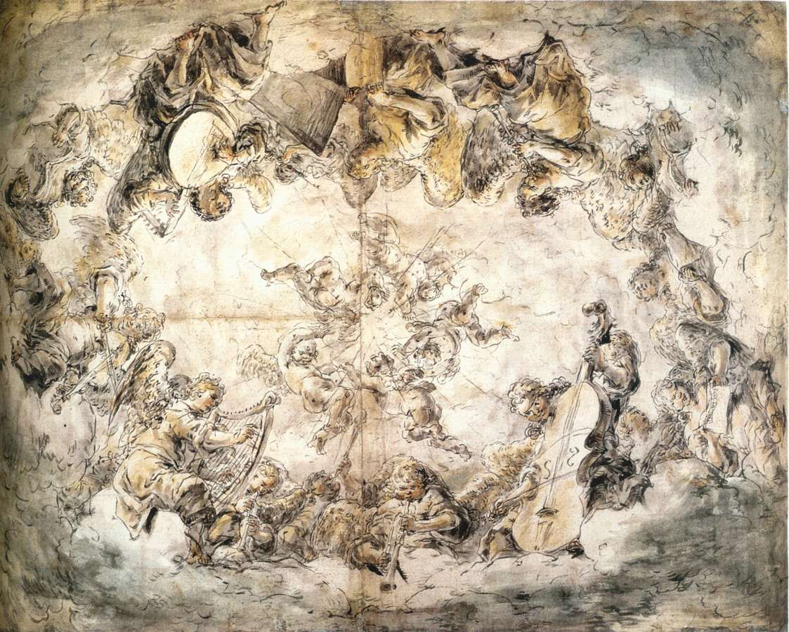 recto